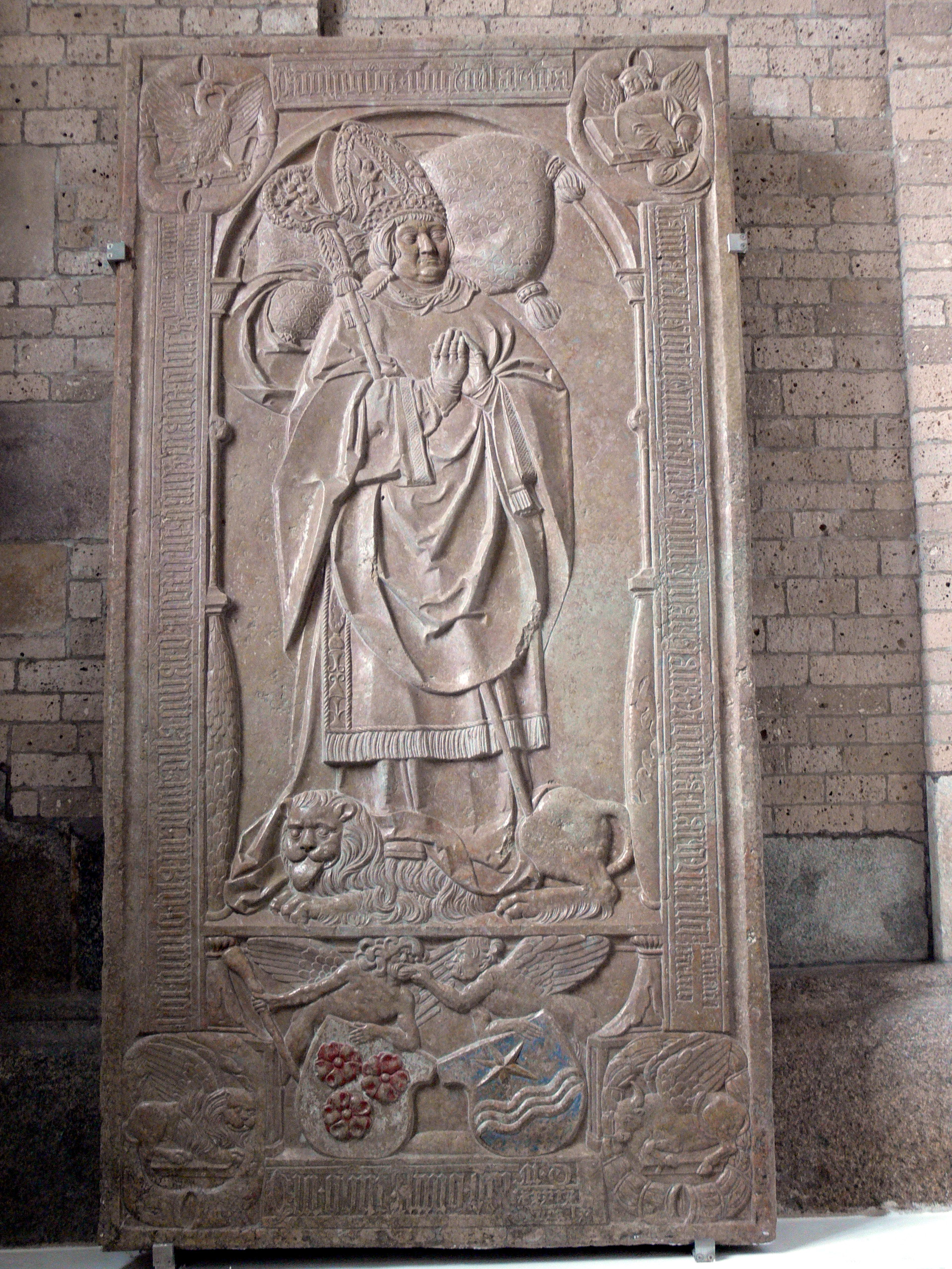 Ribe Cathedral. Ledger stone of Ivar Munk ( 1530 ), created by Claus Berg in Odense.